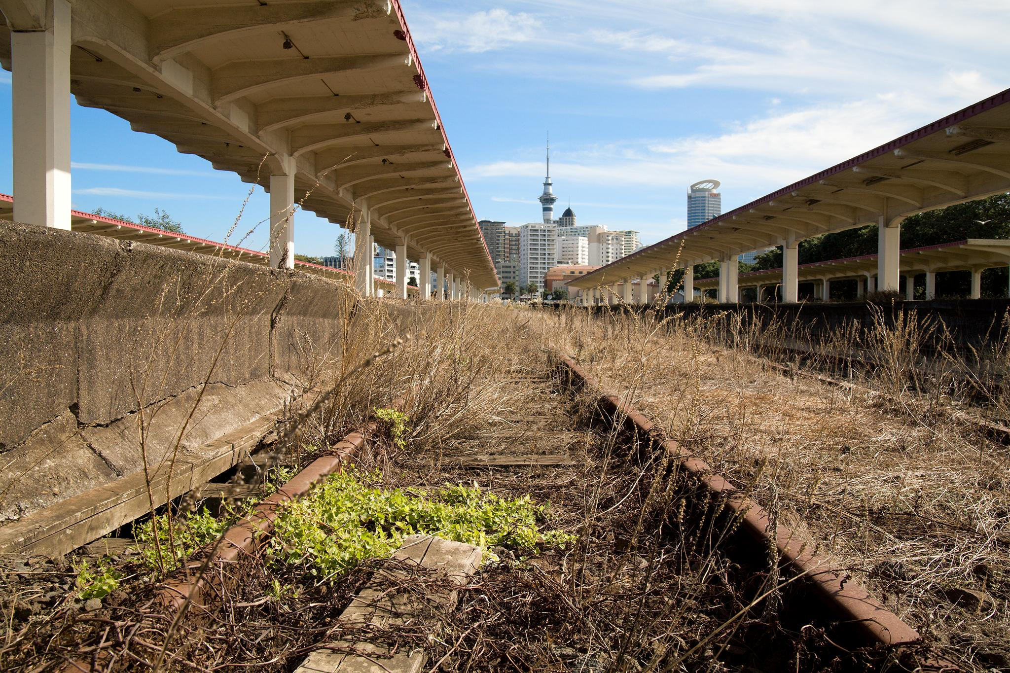 The Strand Station (previously Auckland Station), Auckland New Zealand.